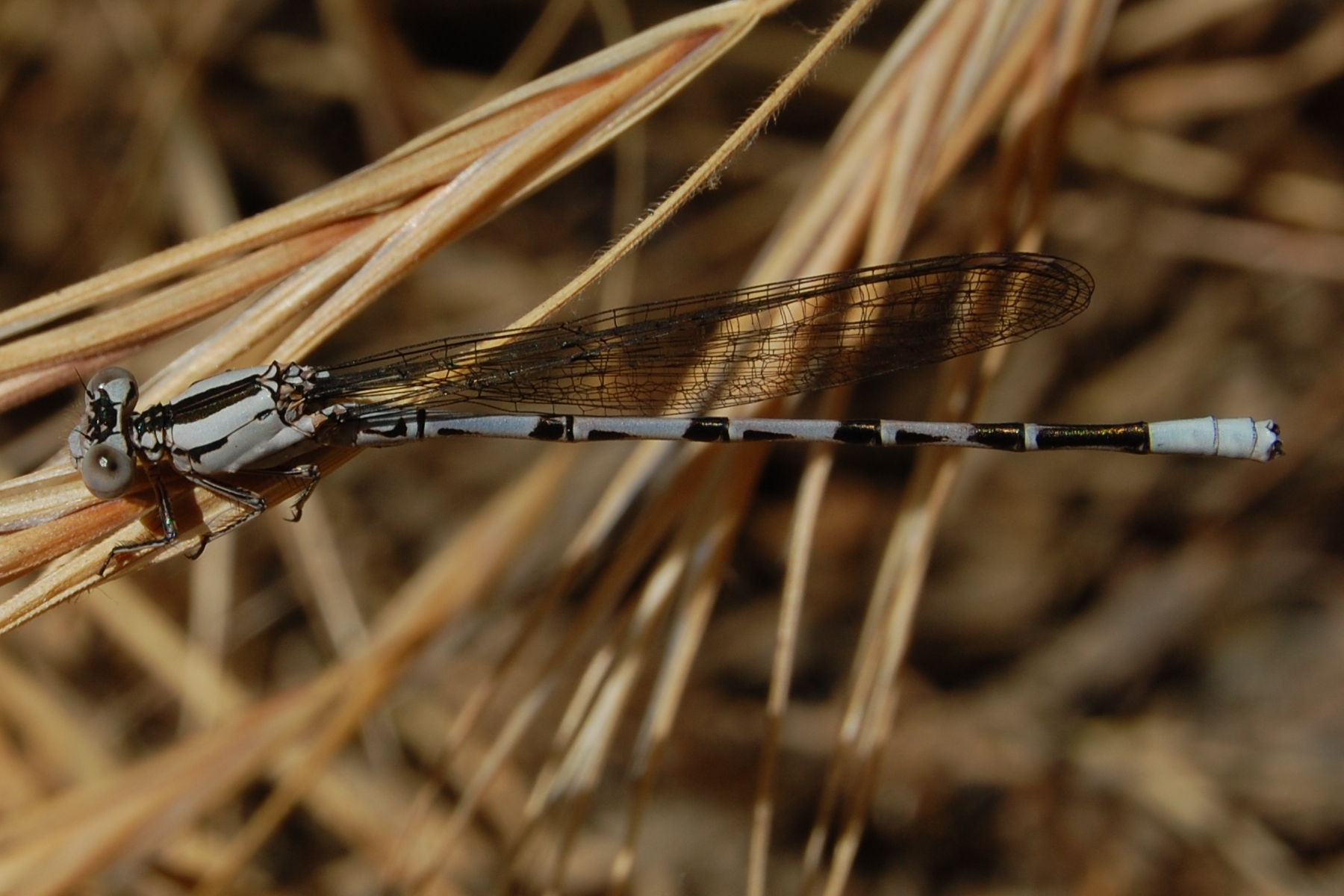 Vivid Dancer. Male. Recently eclosed, or just a cold one